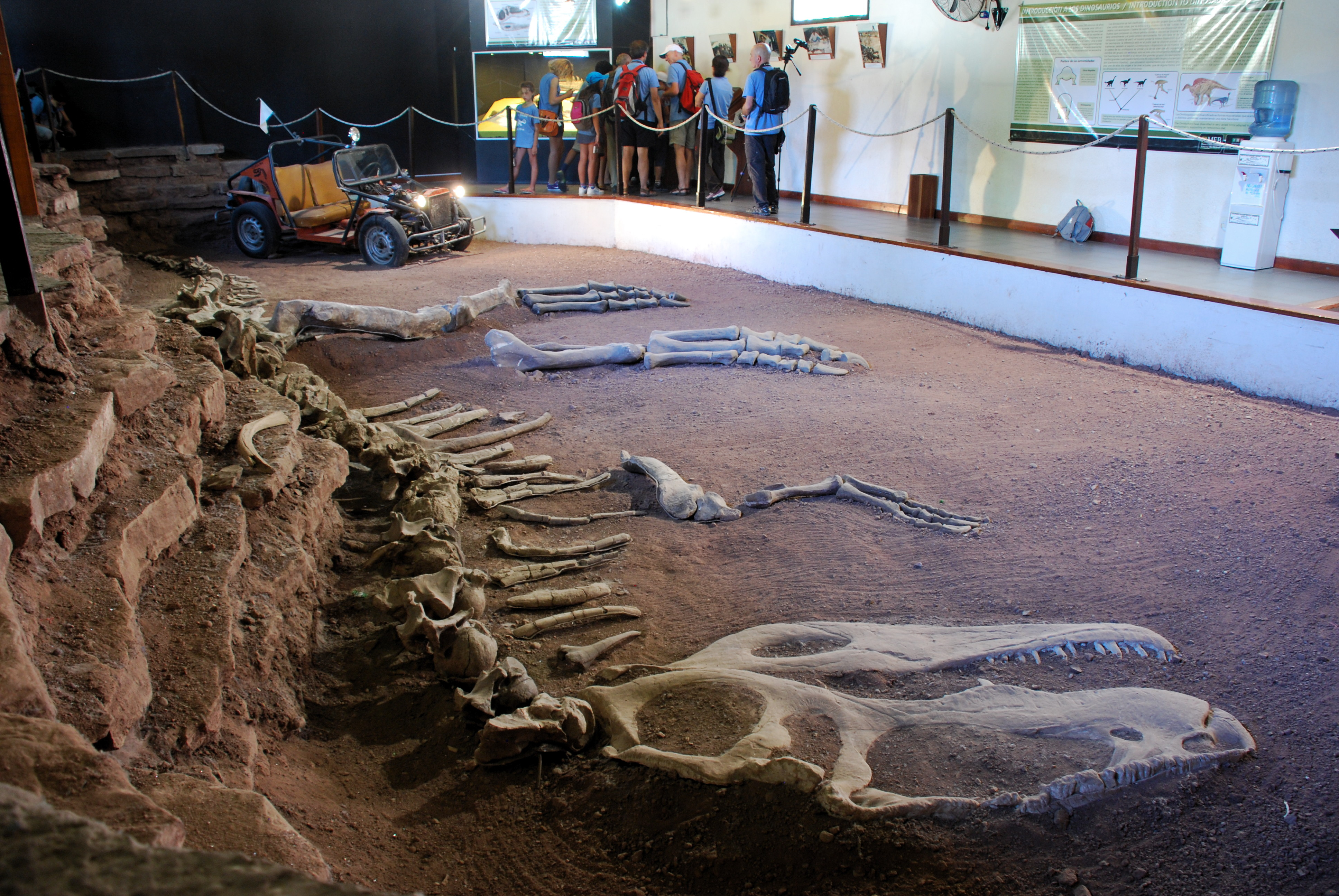 The Natural Science Museum at El Chocón, in the northwestern Argentine Patagonia (the Comahue region). Fossil of Giganotosaurus carolinii